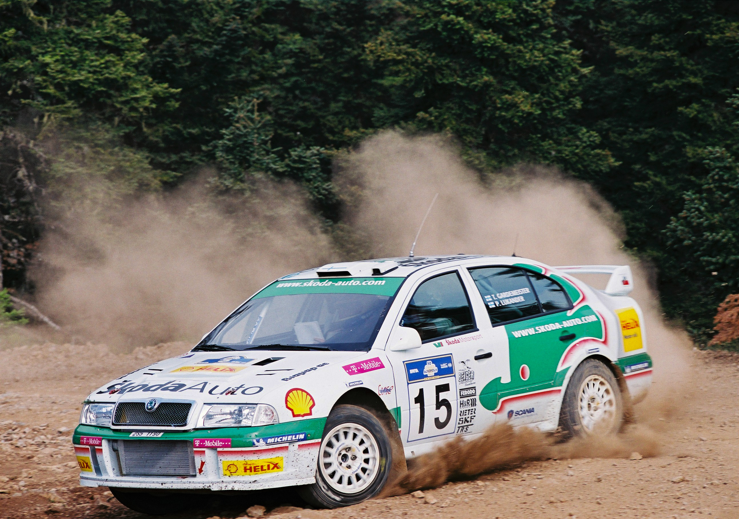 15 T. Gardenmeister and P. Lukander in 2003 Acropolis Rally (S.S. ?)